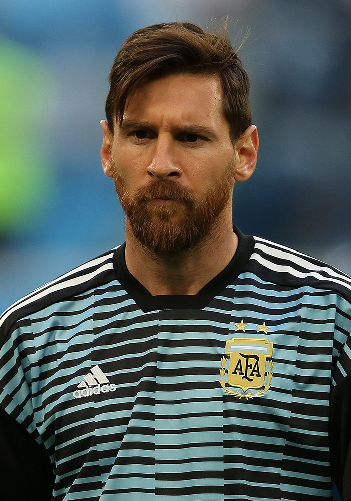 Argentine footballer Lionel Messi on 26 June 2018, ahead of the 2018 FIFA World Cup group stage match against Nigeria.